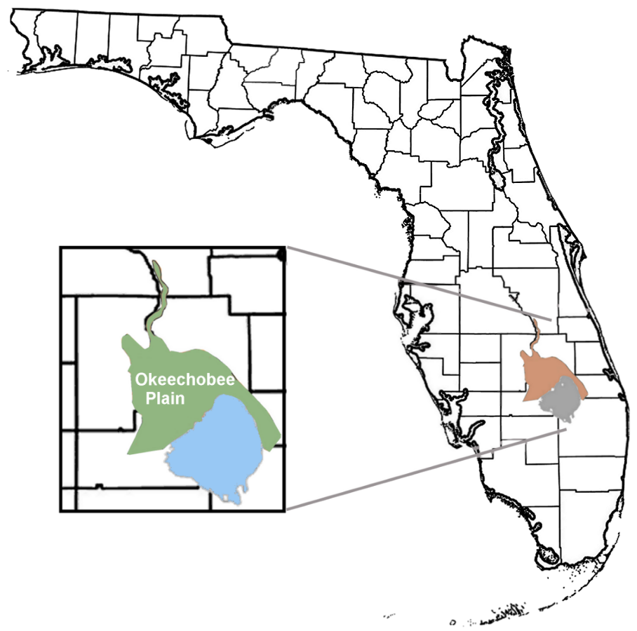 Map depicts location of the Okeechobee Plain. It was created using an overlay of the Basin Status Report: Lake Okeechobee, Physiography and Hydrogeology, Florida EPA.